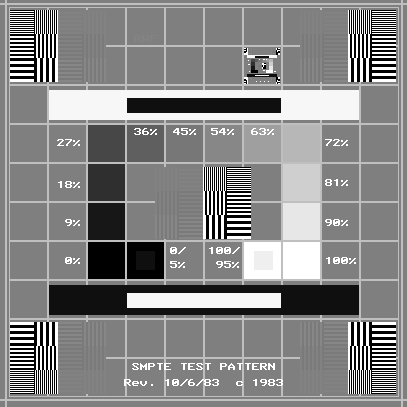 I (Rich Franzen) digitally built this image around 1987 using the SMPTE RP-133 specification as a base. It was originally used as a test image by the DFR-8000 digital film recorder in the mid-to-late 1980s. Both the recorder and its manufacturer, DBA Systems, Inc. are long gone, although L-3 Communications is the company which bought the company which bought DBA. I was granted permission to use the image freely, and it has appeared on my site since 1998. This "small" version is extracted from the full image. It deviates from the RP-133 specification in one respect. An apparant smaller SMPTE pattern is within it, but that pattern is heavily sampled downward. Admittedly this addition means the image is no longer fully compliant with the SMPTE specification. The formal name for the SMPTE specification in question is "SMPTE Medical Diagnostic Imaging Test Pattern".